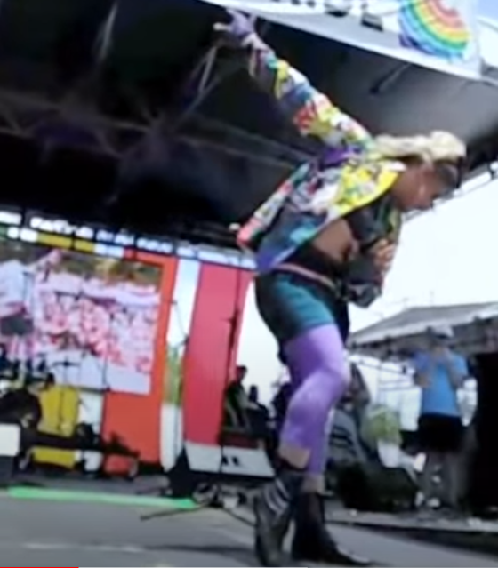 Adam Guerra, a Madonna impersonator during Augusta Pride 2017 | Caption from video: 3:33 s.